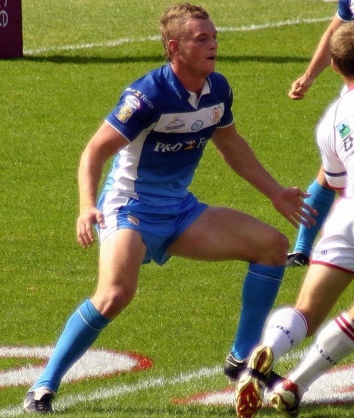 Graeme Horne